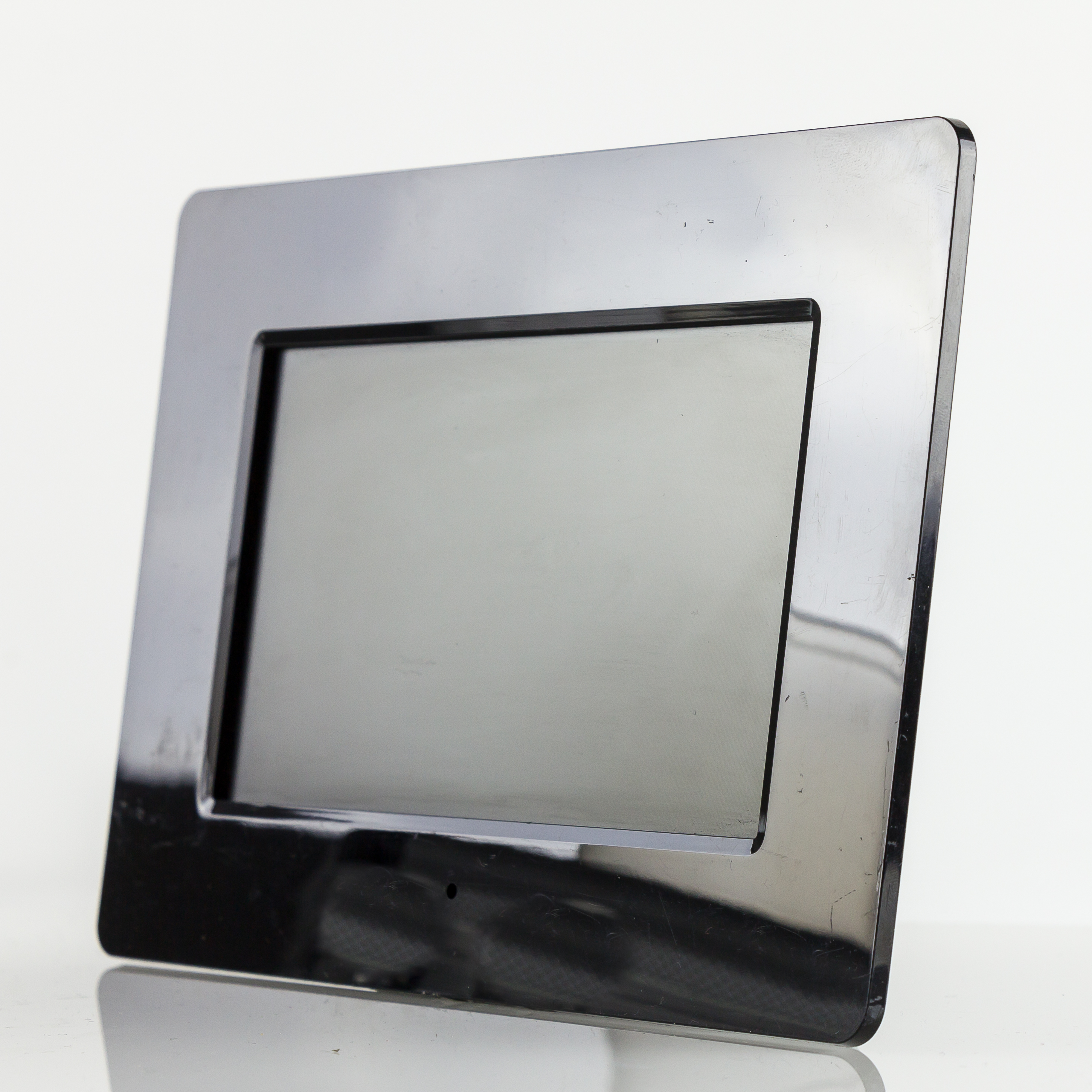 Intenso 7″ Photostation